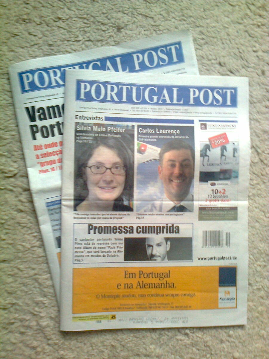 Editions of the portuguese monthly newspaper Portugal Post, edited in Dortmund, germany